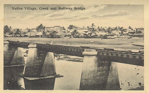 A view of a native village, creek and railway bridge, Zanzibar.